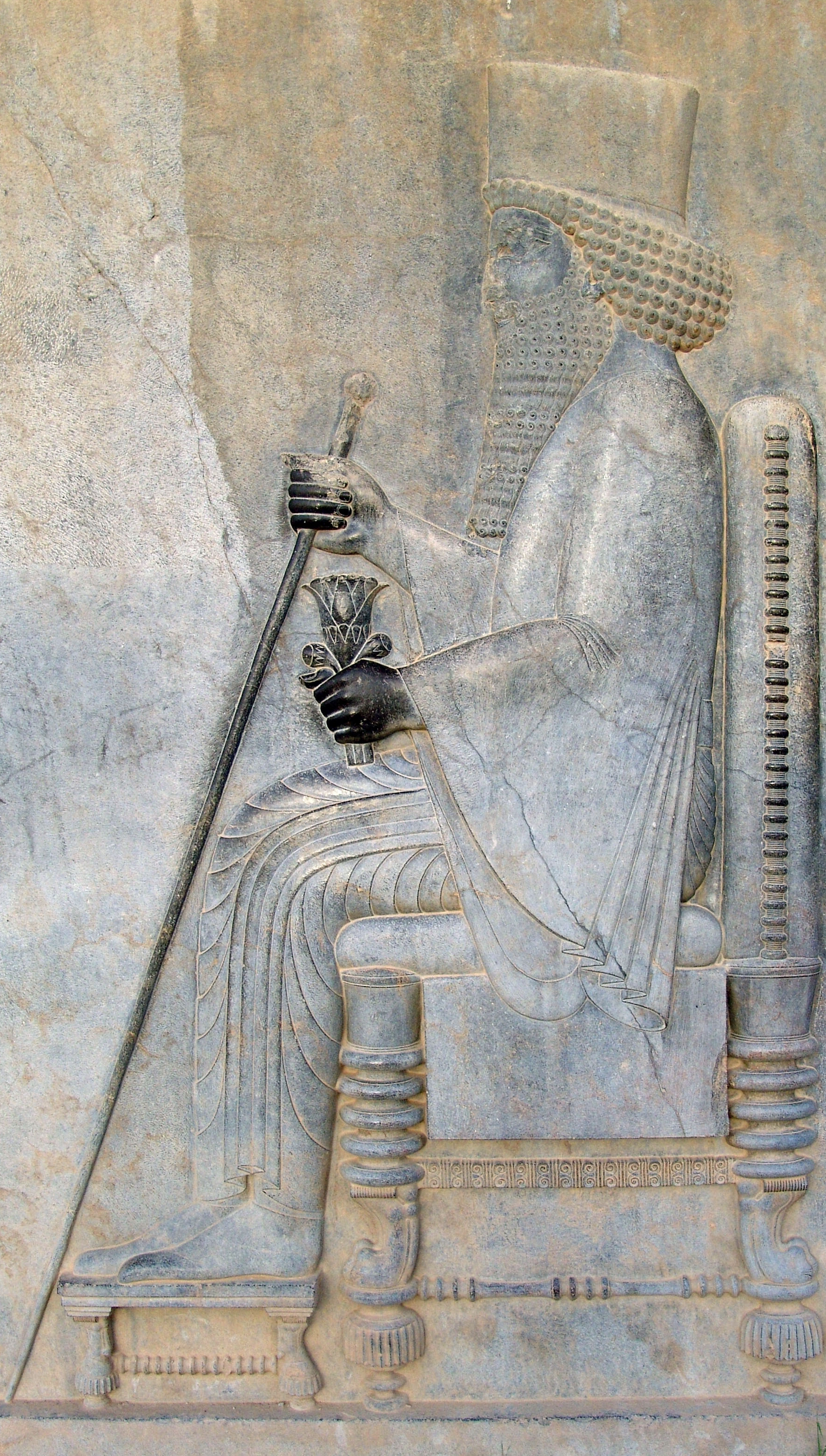 Relief of Darius in Persepolis